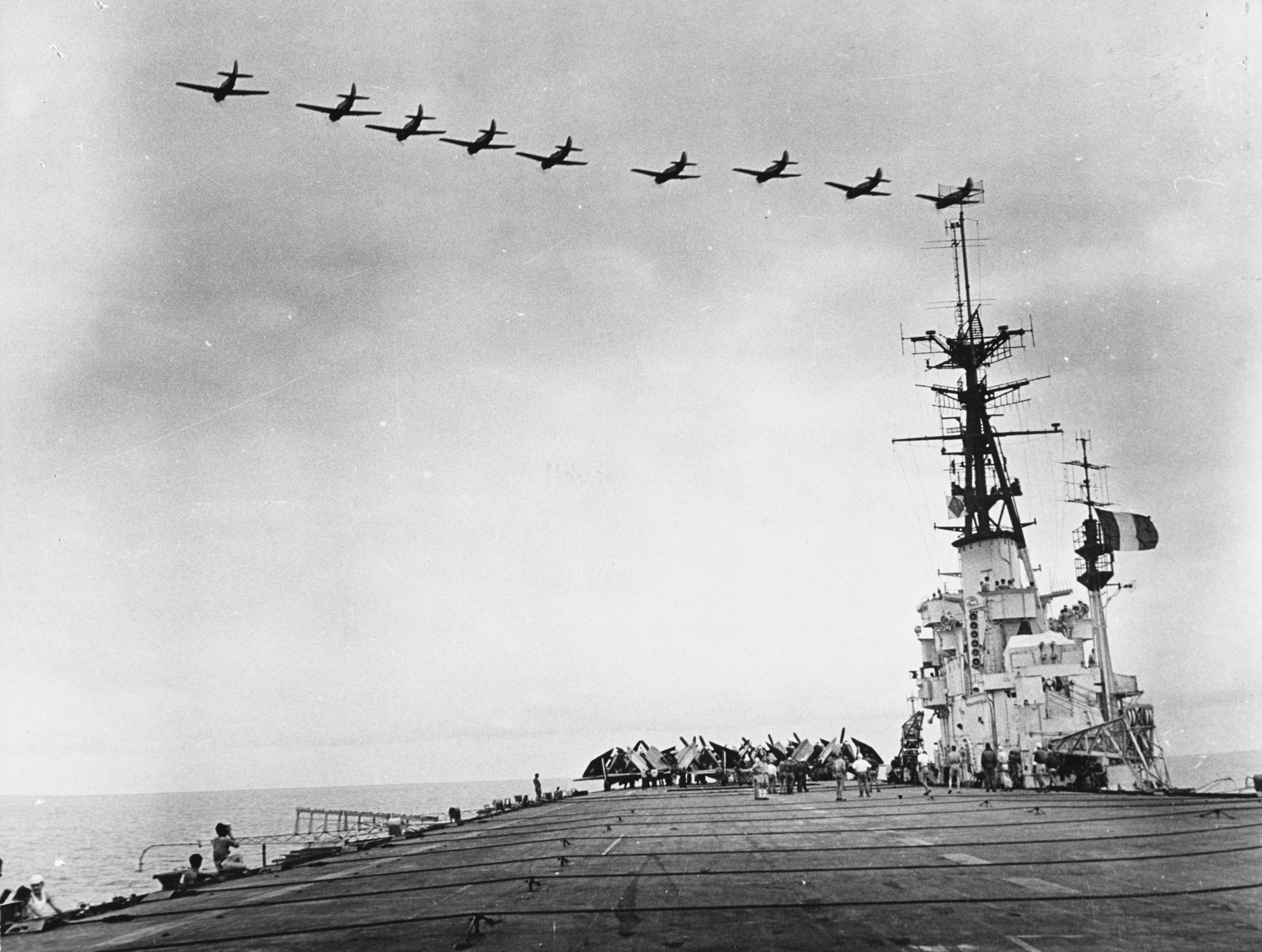 French Aéronavale Curtiss SB2C-5 Helldivers fly over the aircraft carrier Arromanches (R95) steaming in the Gulf of Tonkin. Grumman F6F-5 Hellcats are visible on the flight deck.